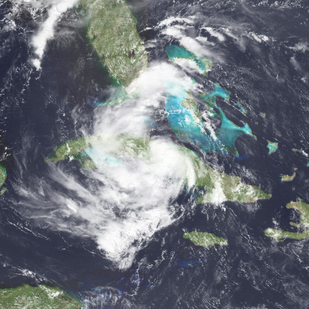 Newly-upgraded Tropical Storm Elena over central Cuba on August 28, 1985